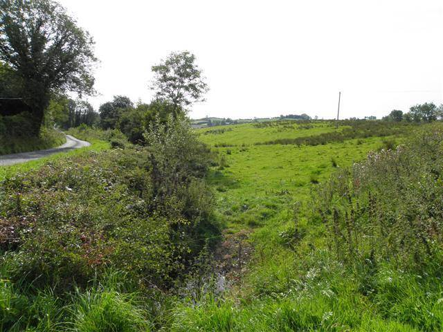 Aghareagh townland, county Monaghan